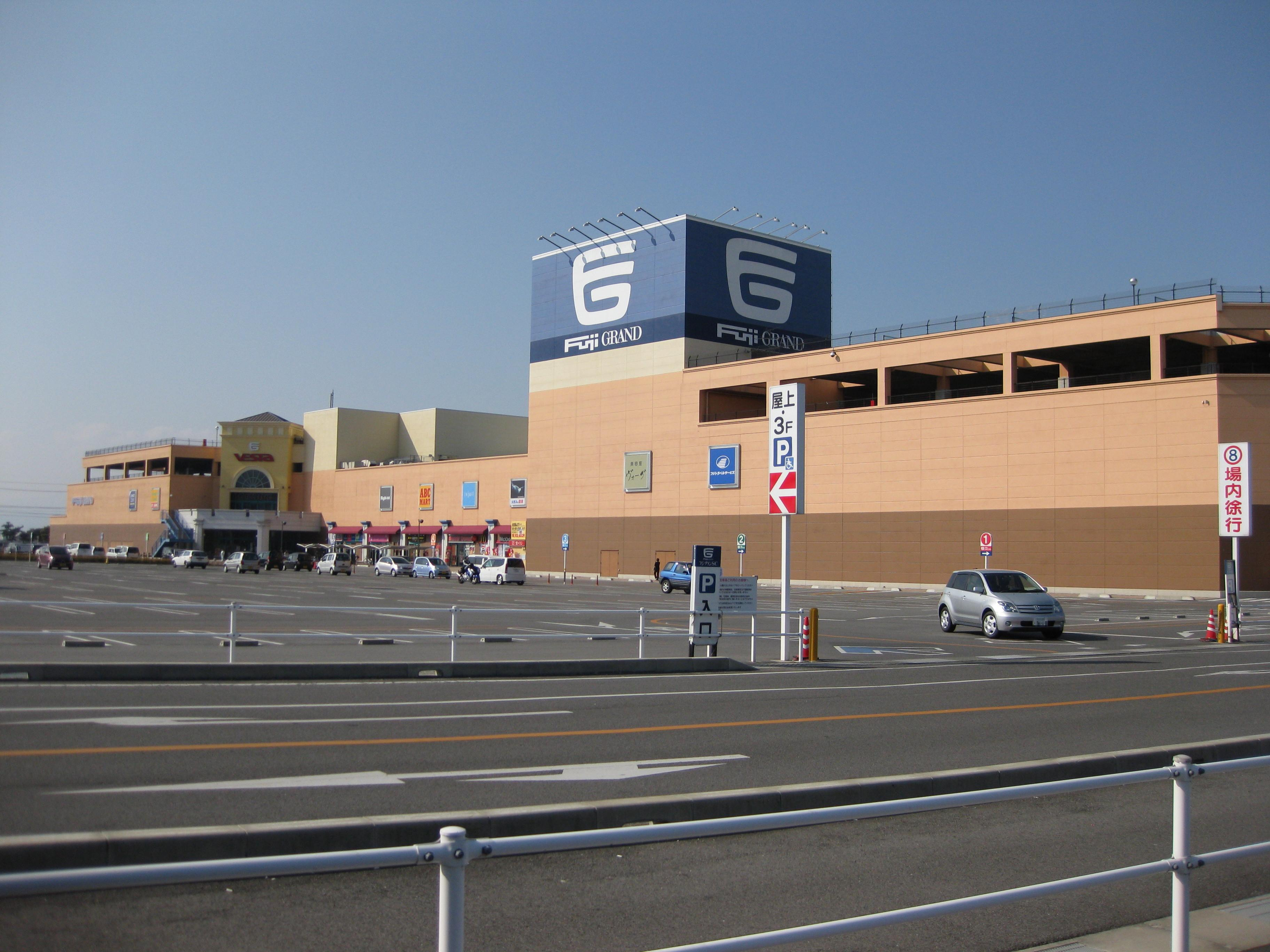 This is a picture of "Fuji GRAND ISHII".